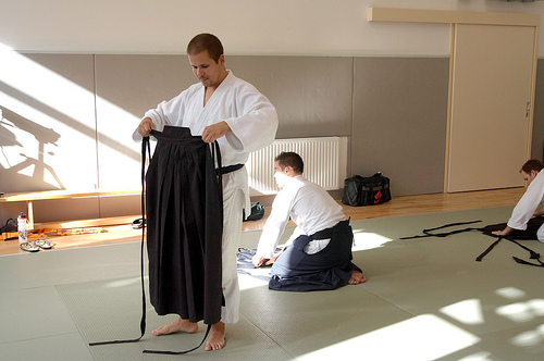 Aikido folding hakama